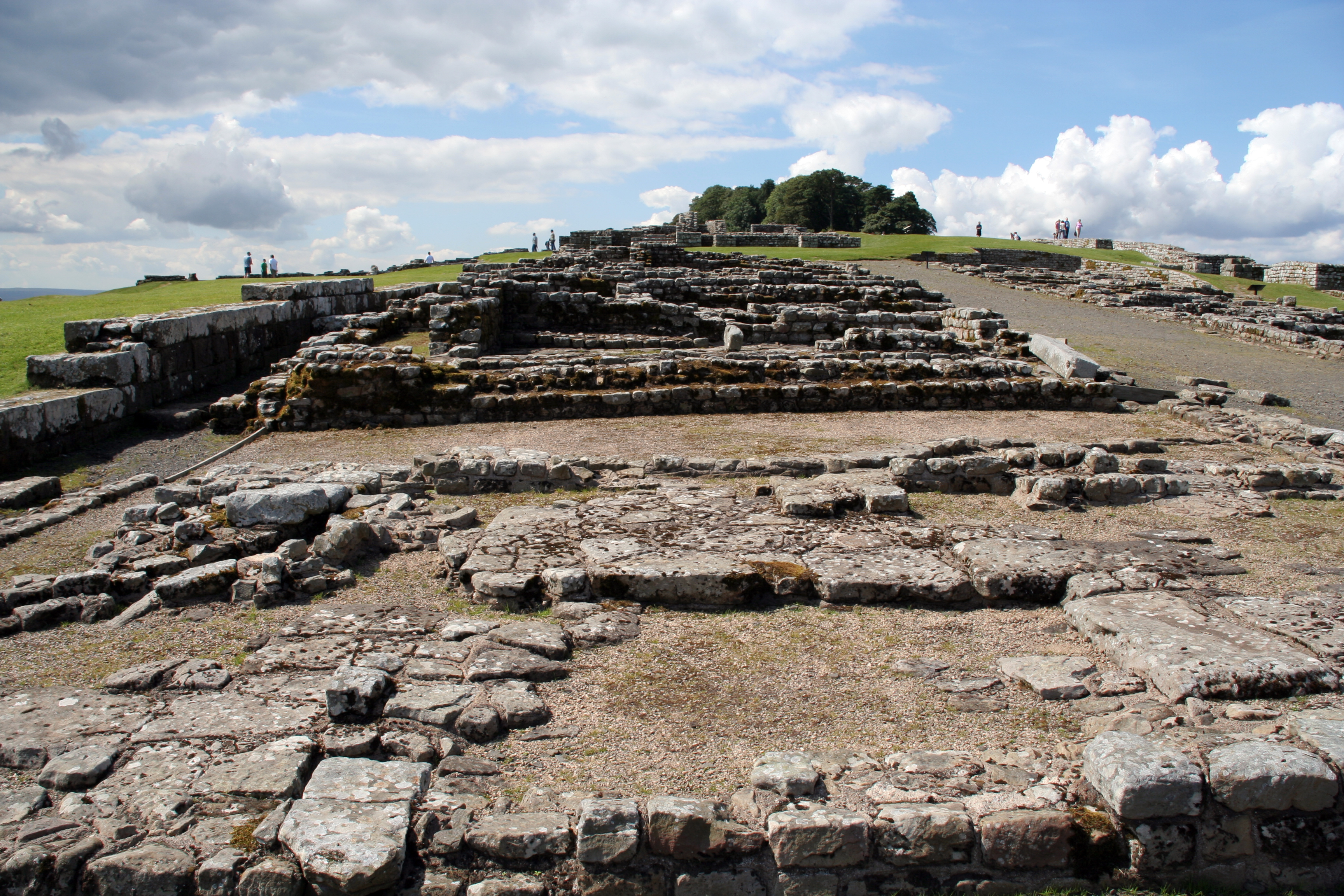 Barracks in the praetentura at Housesteads Roman Fort